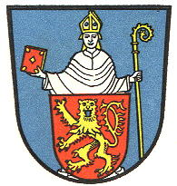 Coat of arms of the city of Bendorf